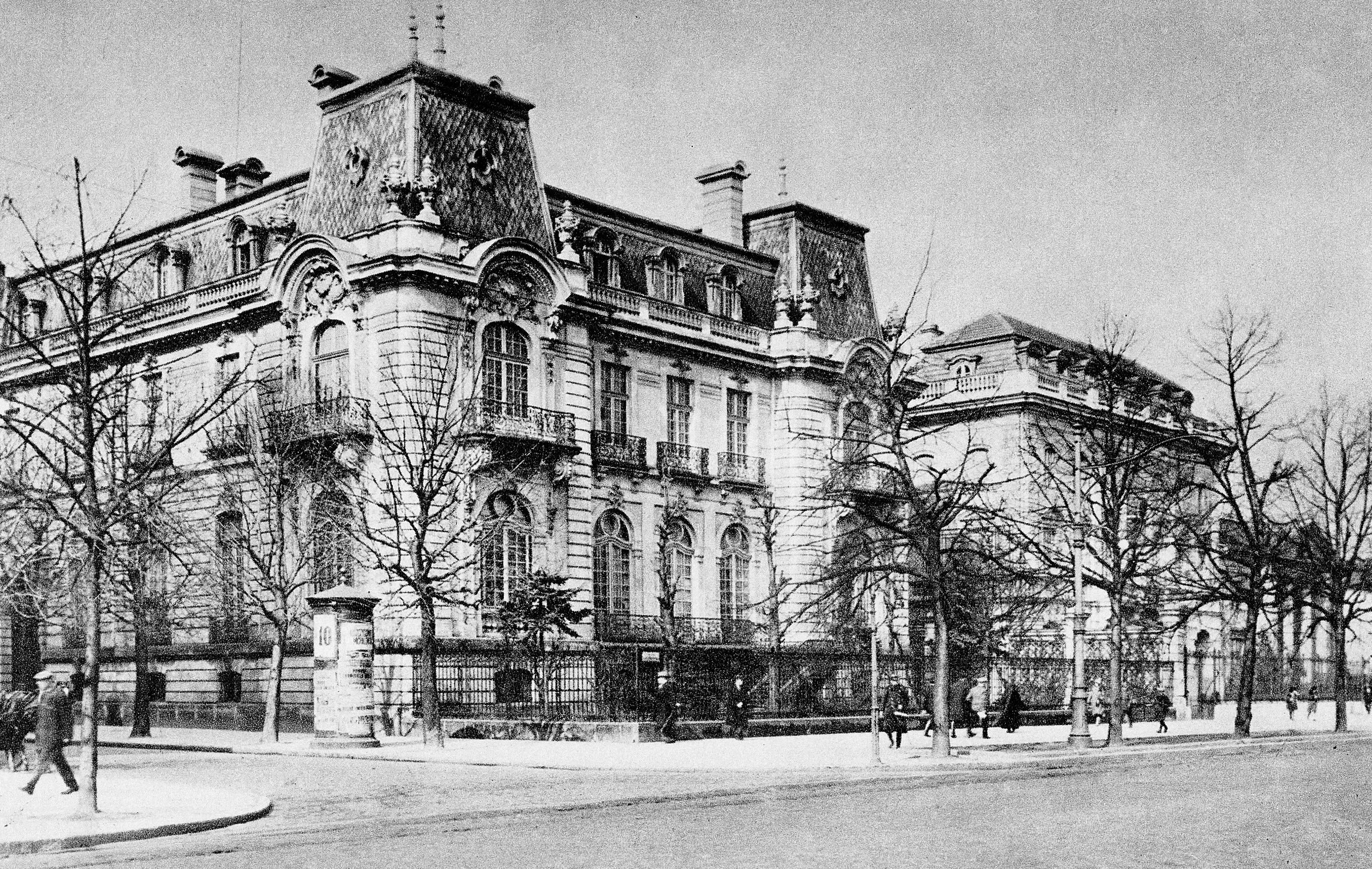 Rzyszczewski Palace in Ujazdowskie Avenue in Warsaw